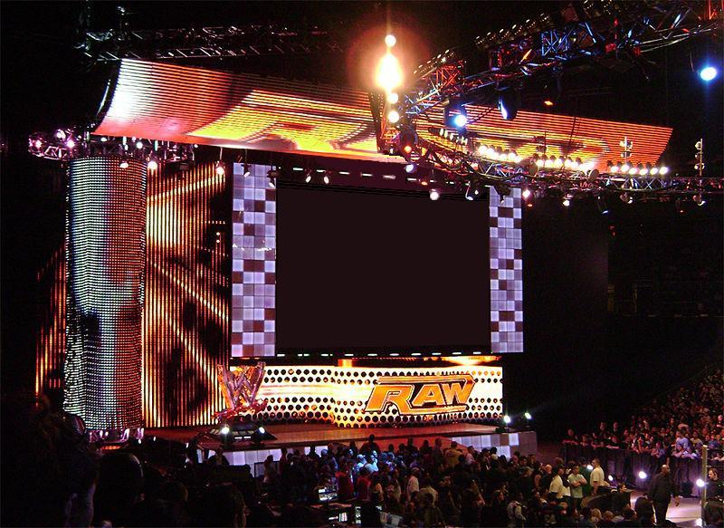 WWE Raw Hi-Def Set.